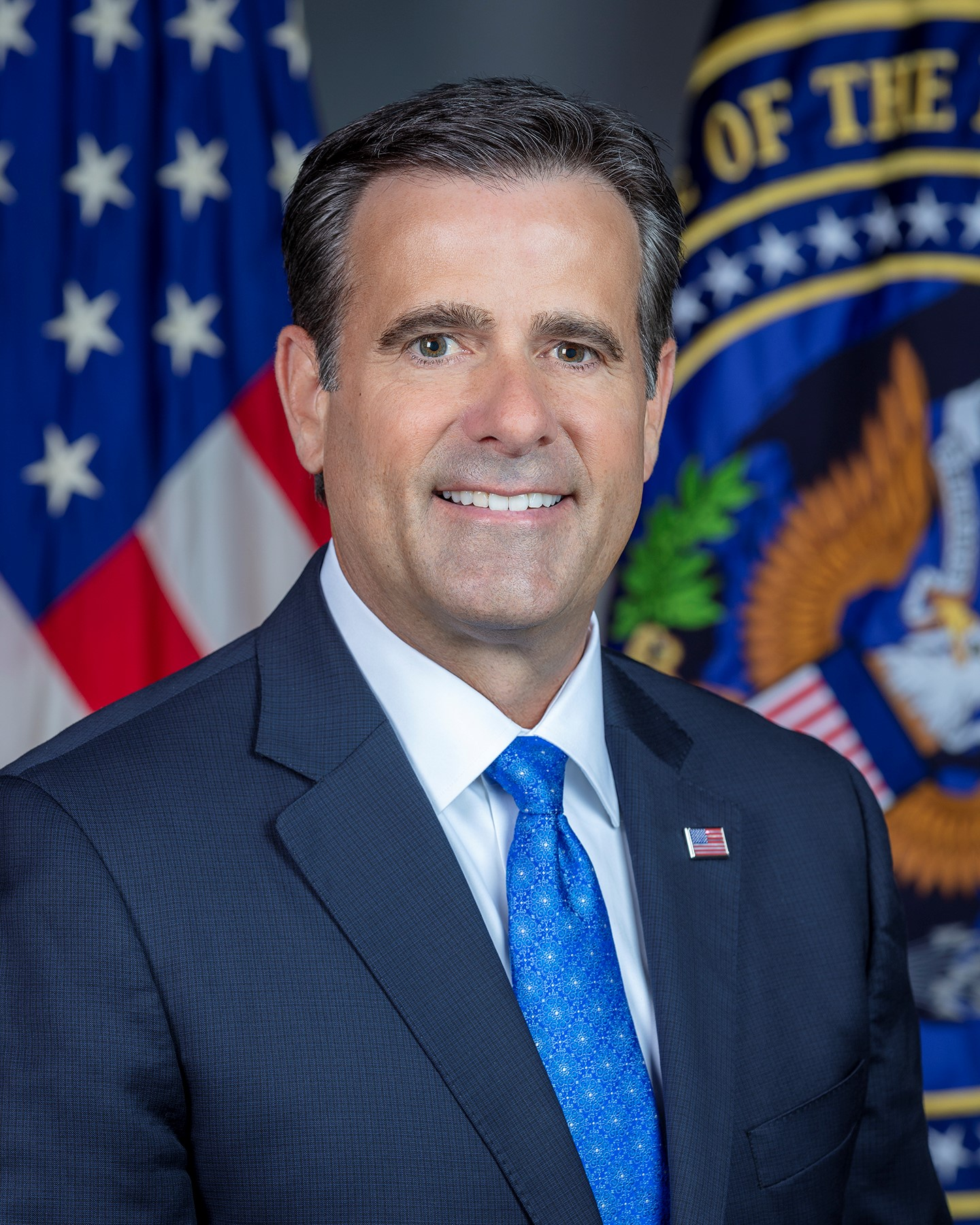 John Ratcliffe official photo